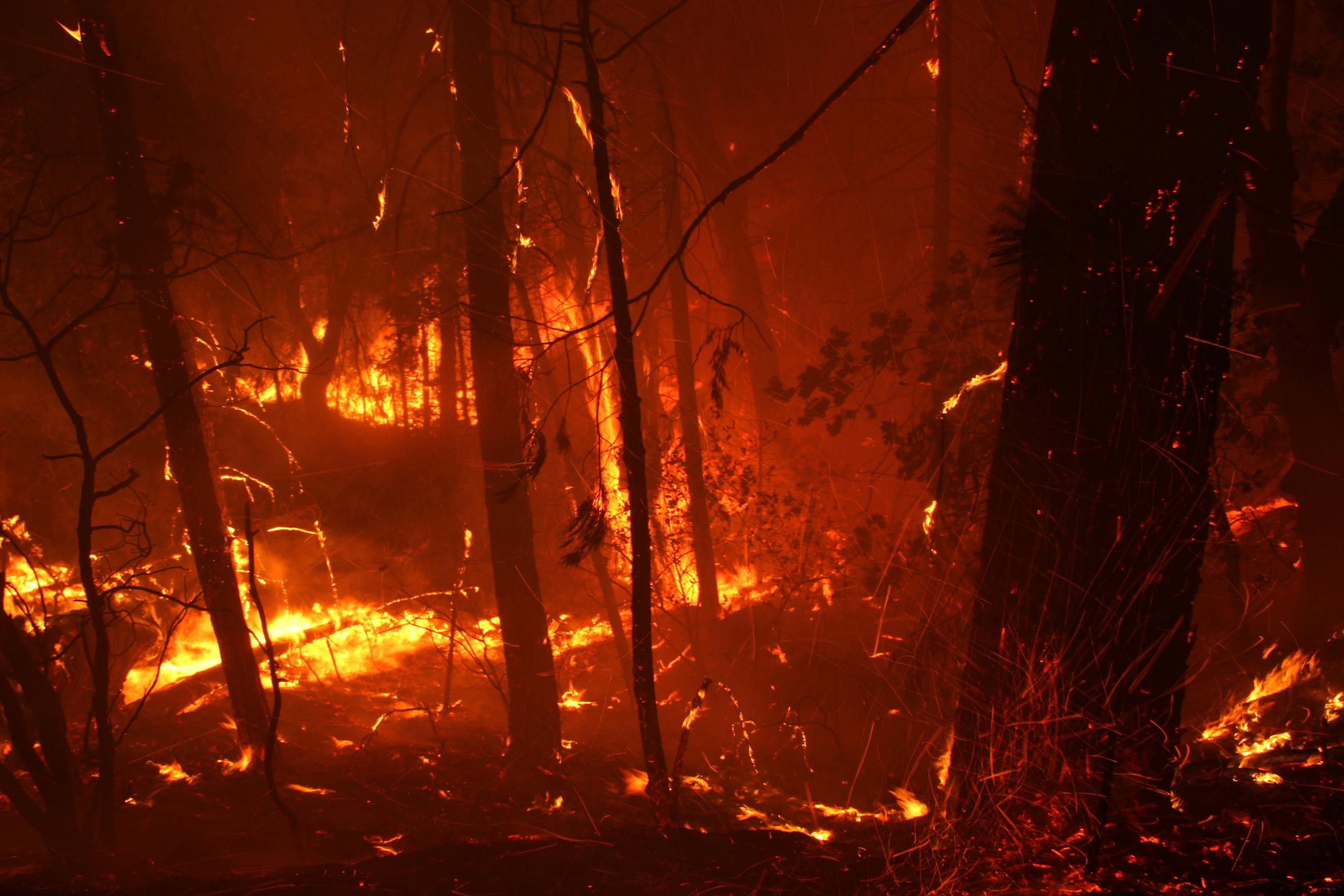 The Rim Fire in the Stanislaus National Forest near in California began on Aug. 17, 2013 and is under investigation. The fire has consumed approximately 199,237 acres and is 32% contained. U.S. Forest Service photo by Mike McMillan.